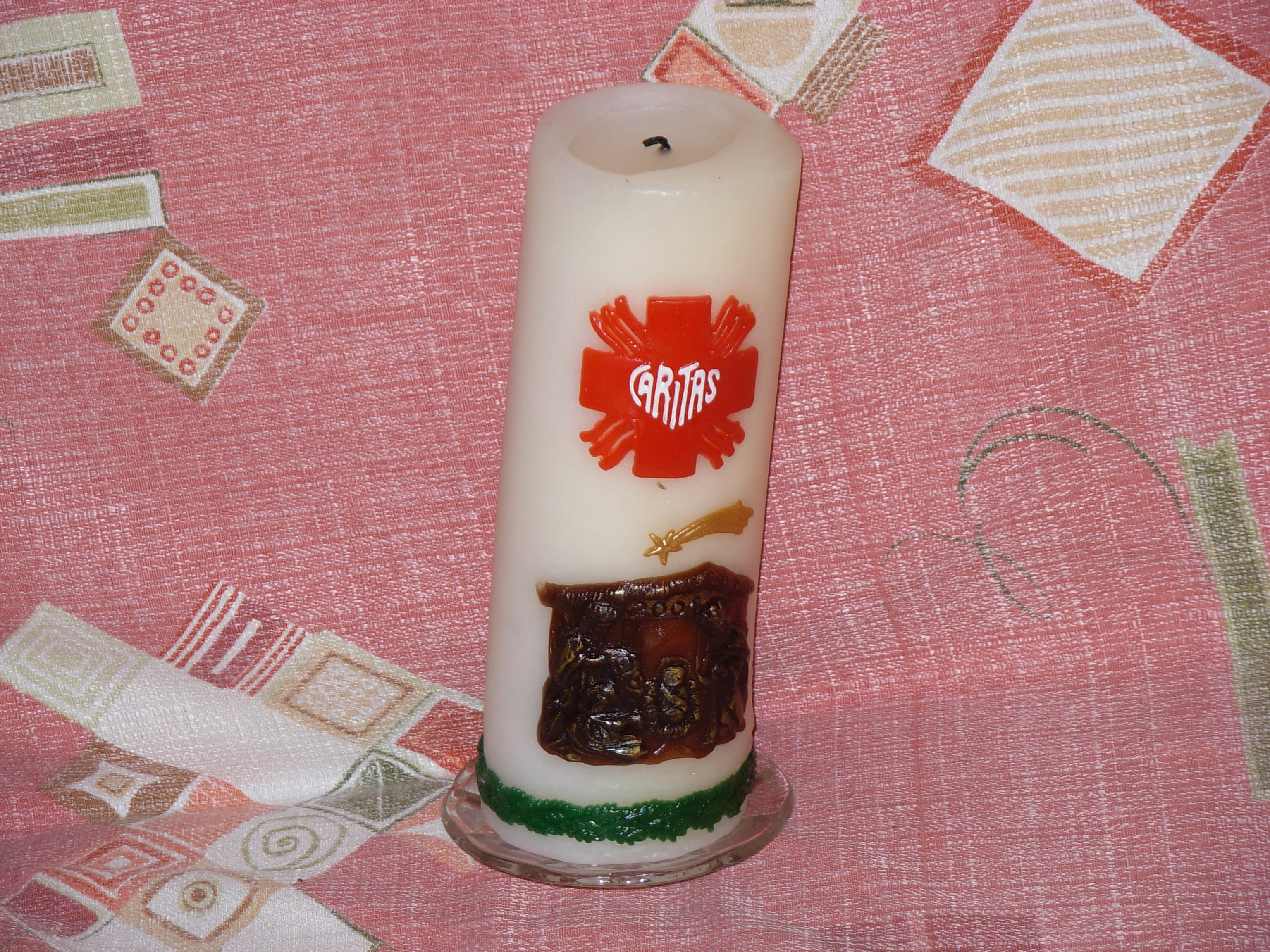 Christmas candle, Poland. My photo.